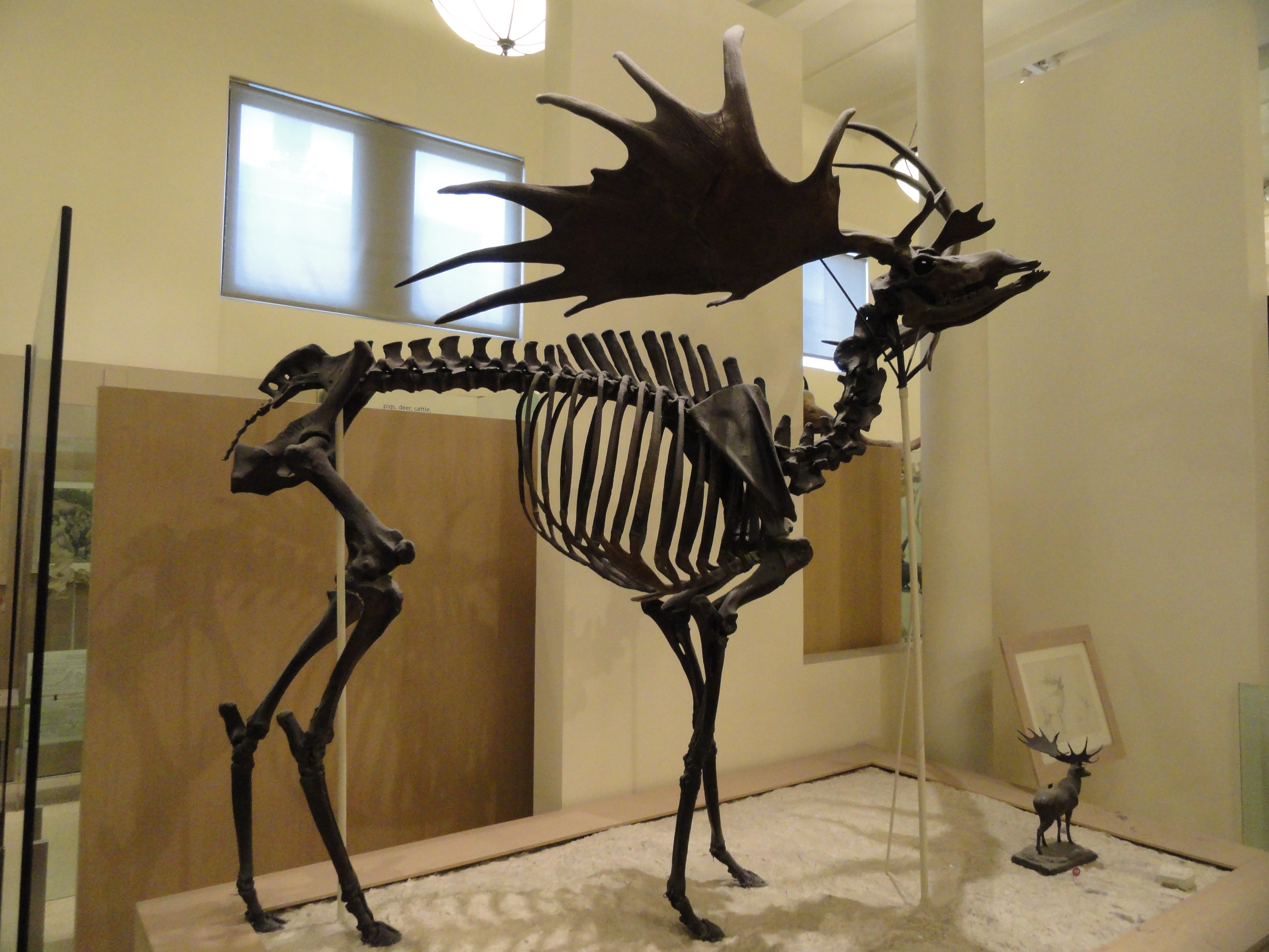 Irish elk (Megaloceros giganteus) skeletal mount at the American Museum of Natural History, New York